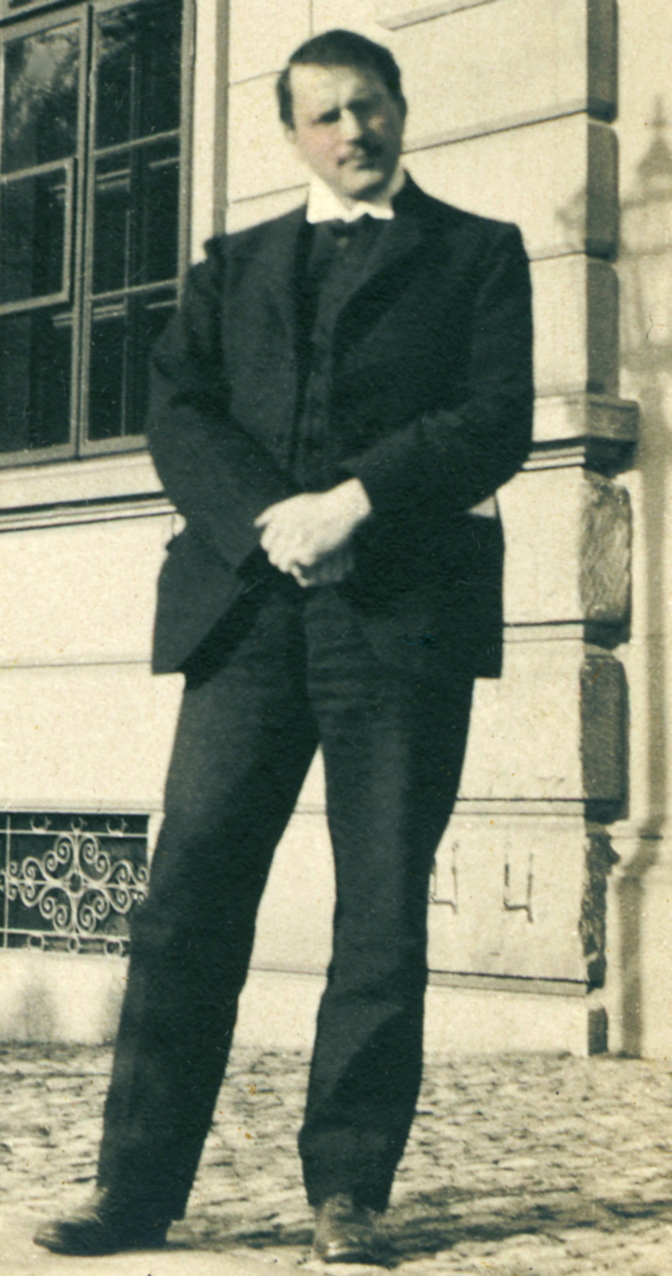 Hand-colored photograph of Carl Jung in USA, published in 1910.